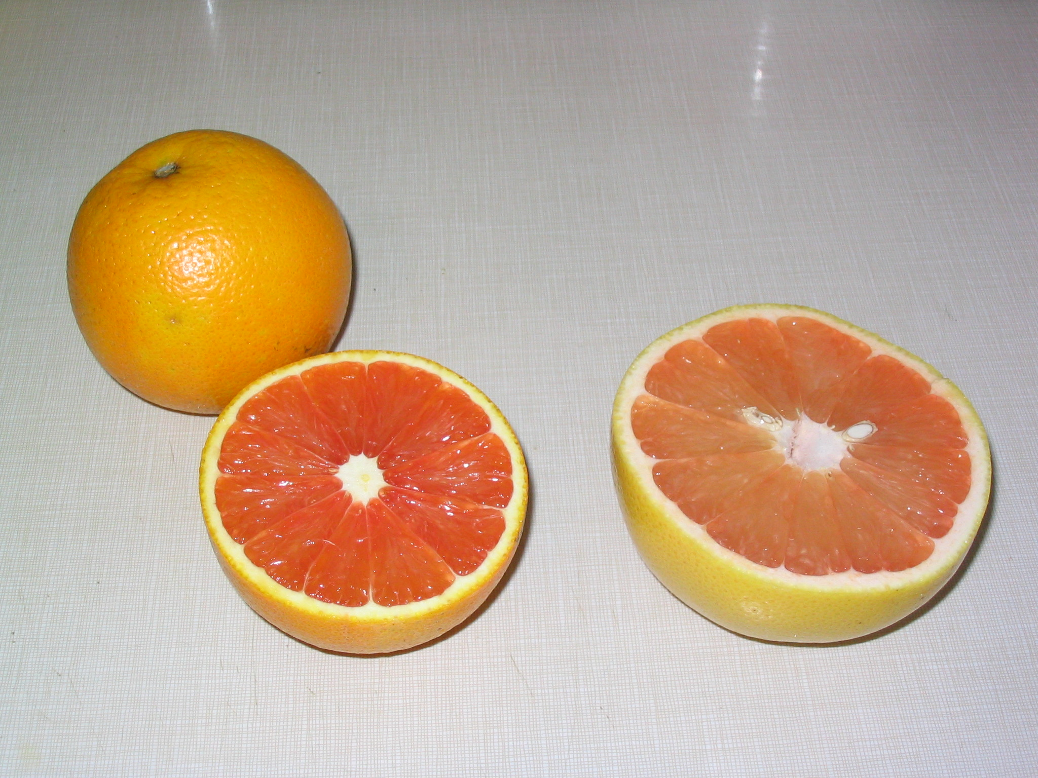 Cara cara orange next to a grapefruit for size and colour comparison